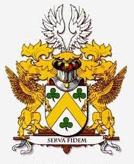 Sandberg familie wapen